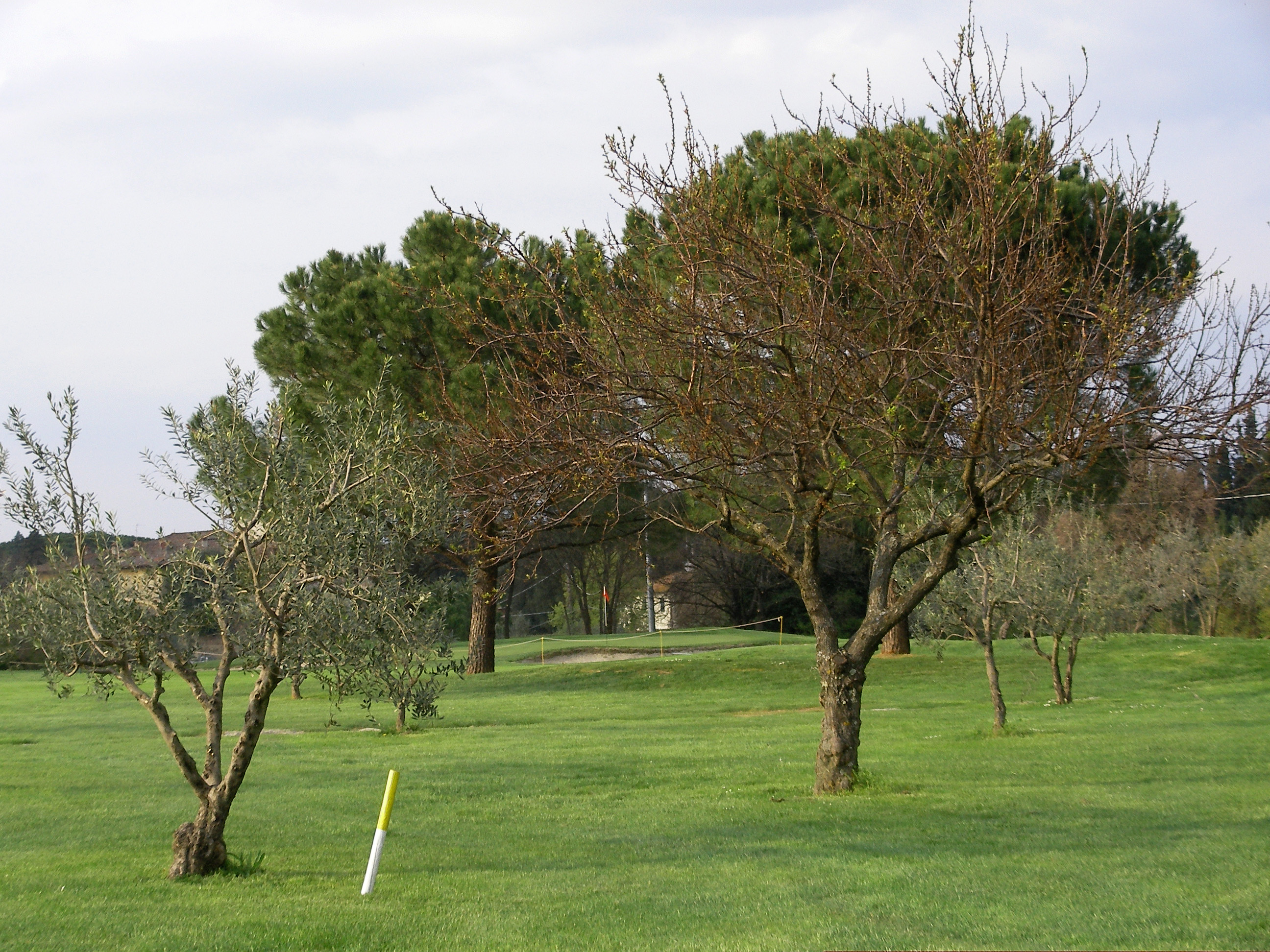 The well-defended 14th Green, Circolo del Golf dell'Ugolino